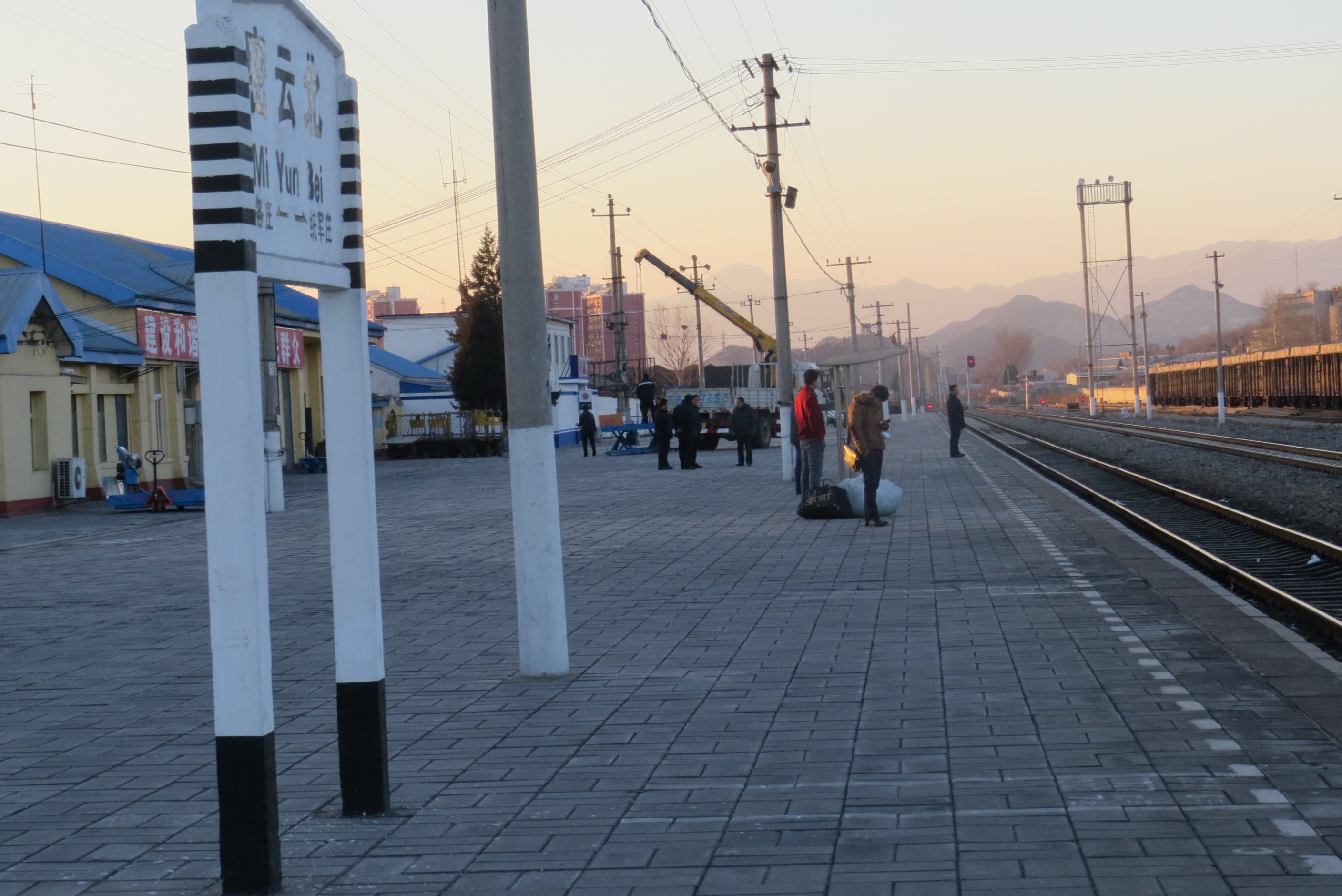 Pax, sunset and the hills